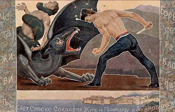 Serbian hawk Herceg Novi